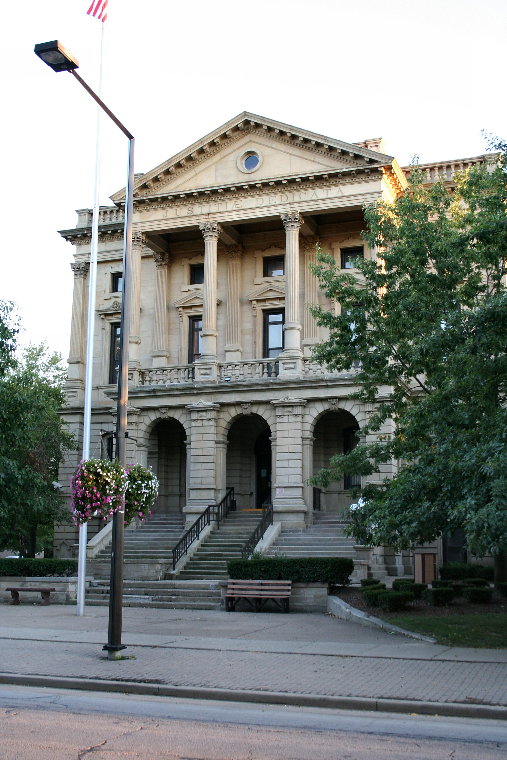 The old count courthouse in Elyria, Ohio was designed by architect Elijah E. Myers and built in 1881. The building was listed on the National Register of Historic Places on June 18, 1975.